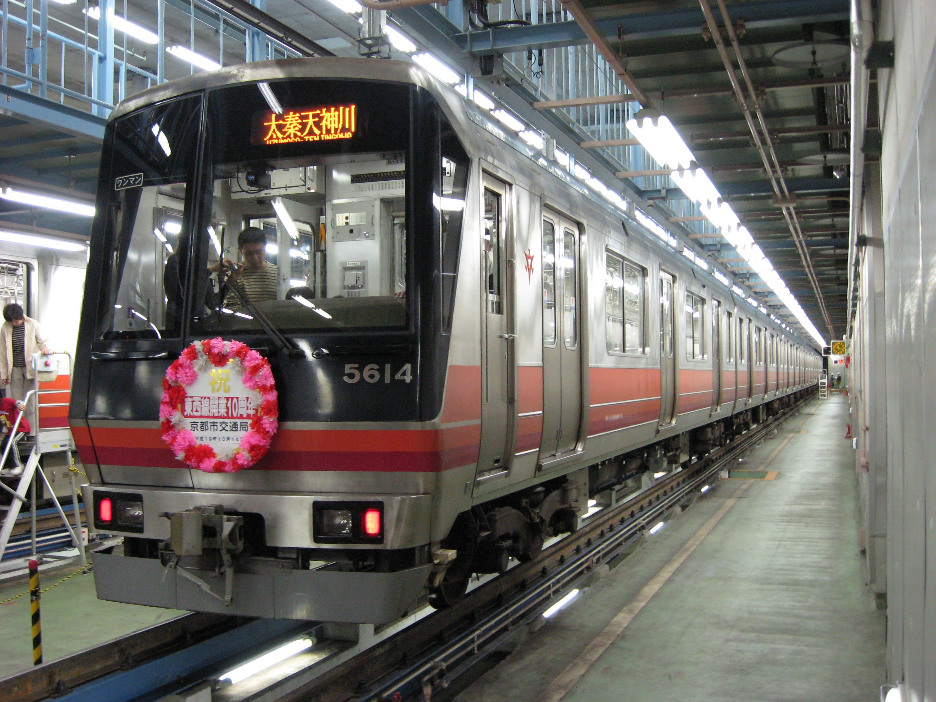 Kyoto Municipal Subway 50 Series 5614